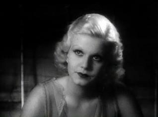 Cropped screenshot of Jean Harlow from the trailer for the film Red Dust